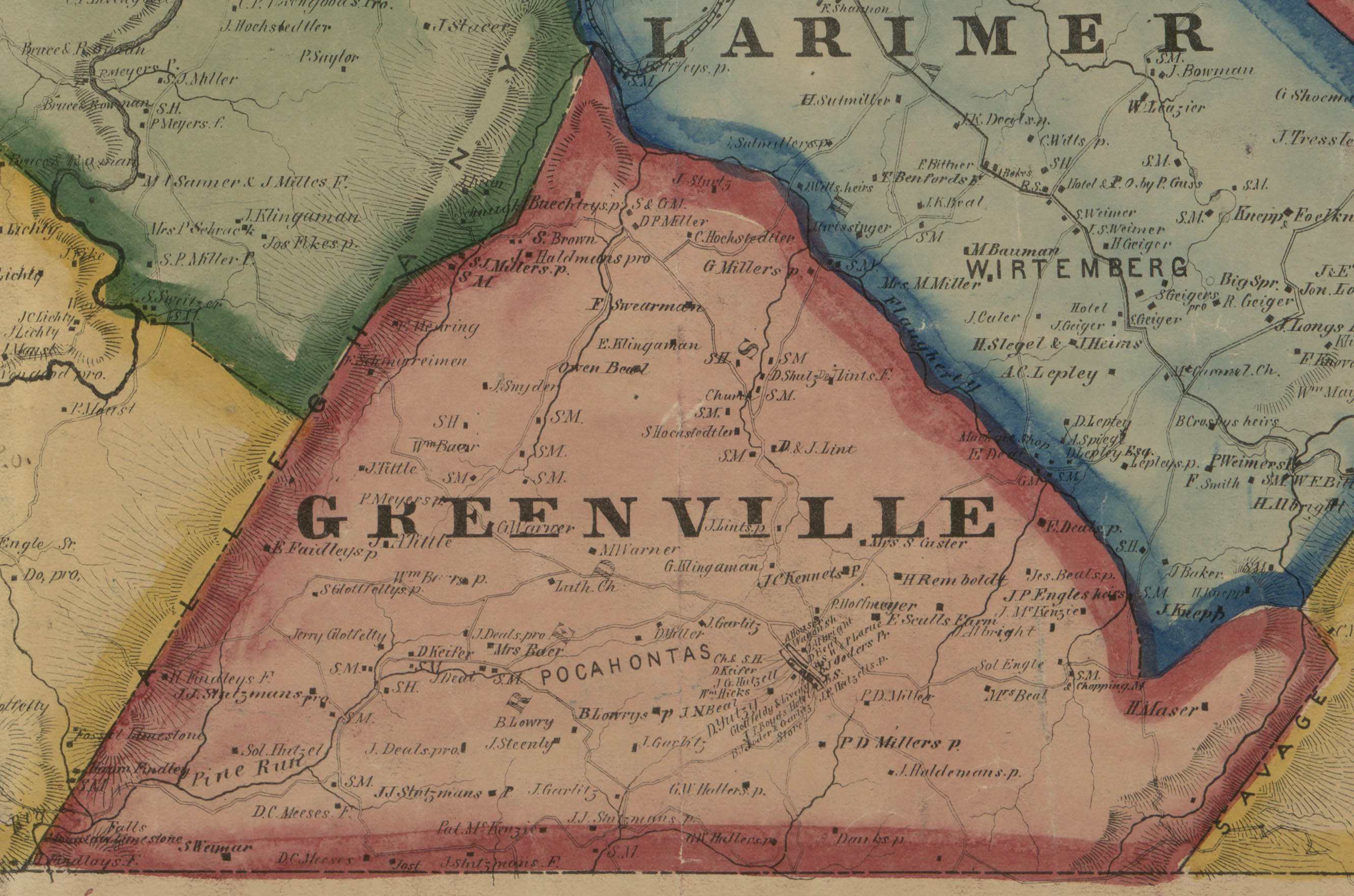 Map of Greenville Township taken from 1860 Edward L. Walker map of Somerset County, Pennsylvania, available at the Library of Congress website